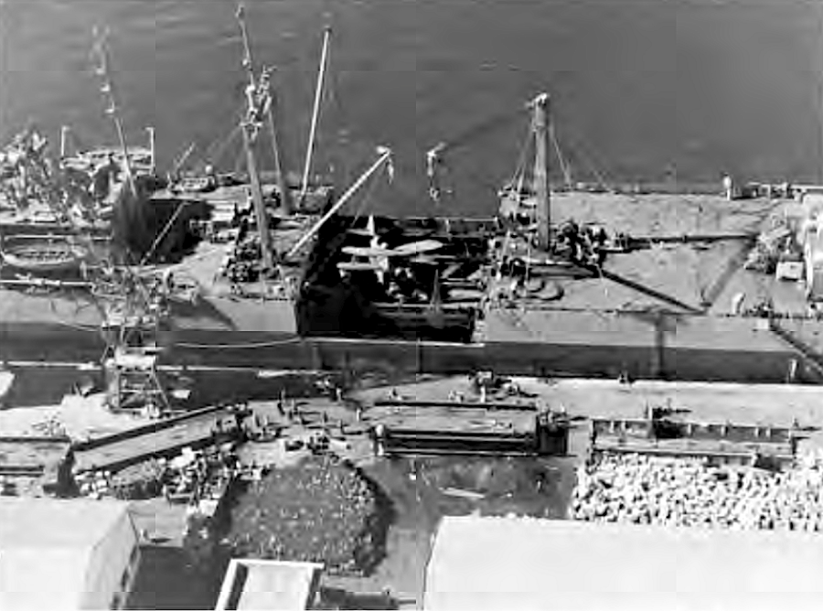 SEATRAIN LAKEHURST at Safi after discharging her cargo of medium tanks. A damaged Navy scout observation plane is taken aboard.